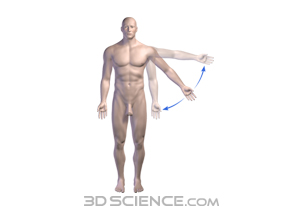 skeletal_flexion_extension